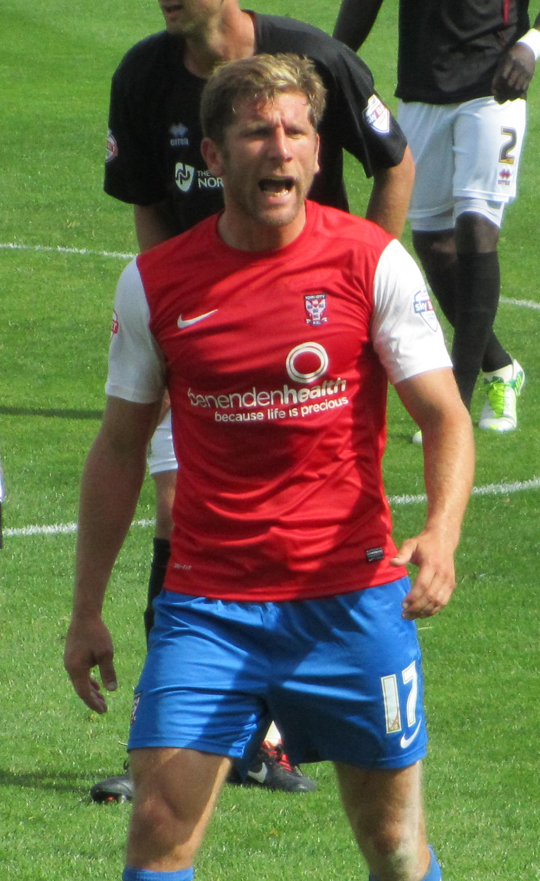 Richard Cresswell playing for York City against Northampton Town at Bootham Crescent, York on 3 August 2013